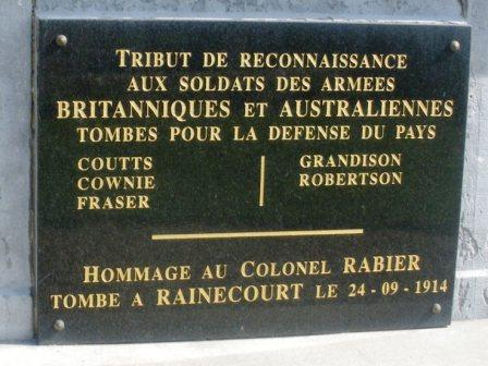 A plaque on the Framerville-Rainecourt monument aux morts which acknowledges British and Australian soldiers who died in the area